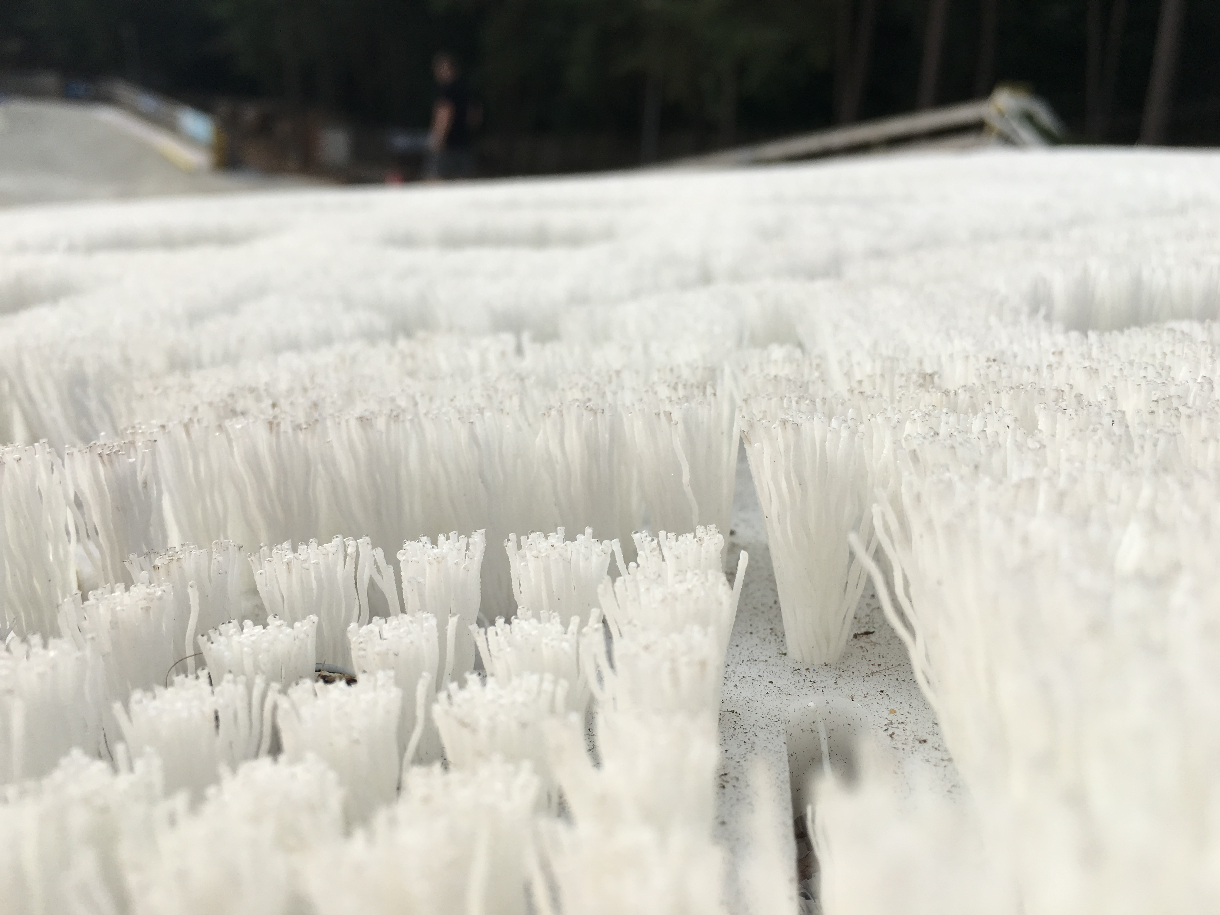 Close up image of Proslope bristle design